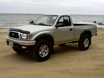 A 2001 Tacoma 4x4 SR5